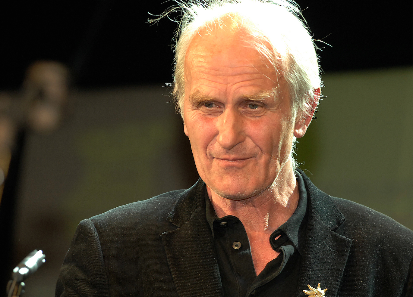 Prof. Roland Girtler